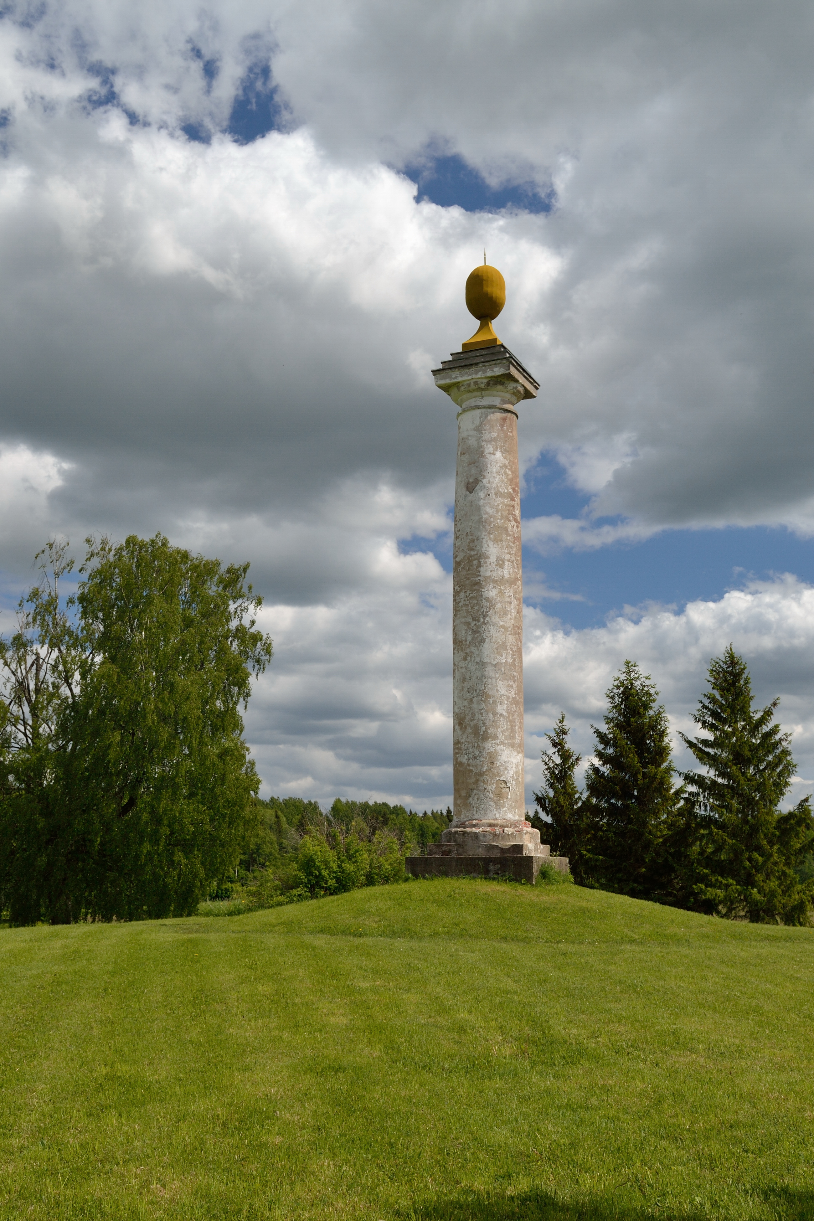 Monument was built in 19. century supposedly to the wars of Alexander I and Napoleon